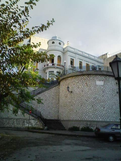 Patras, Trion Navarchon steps